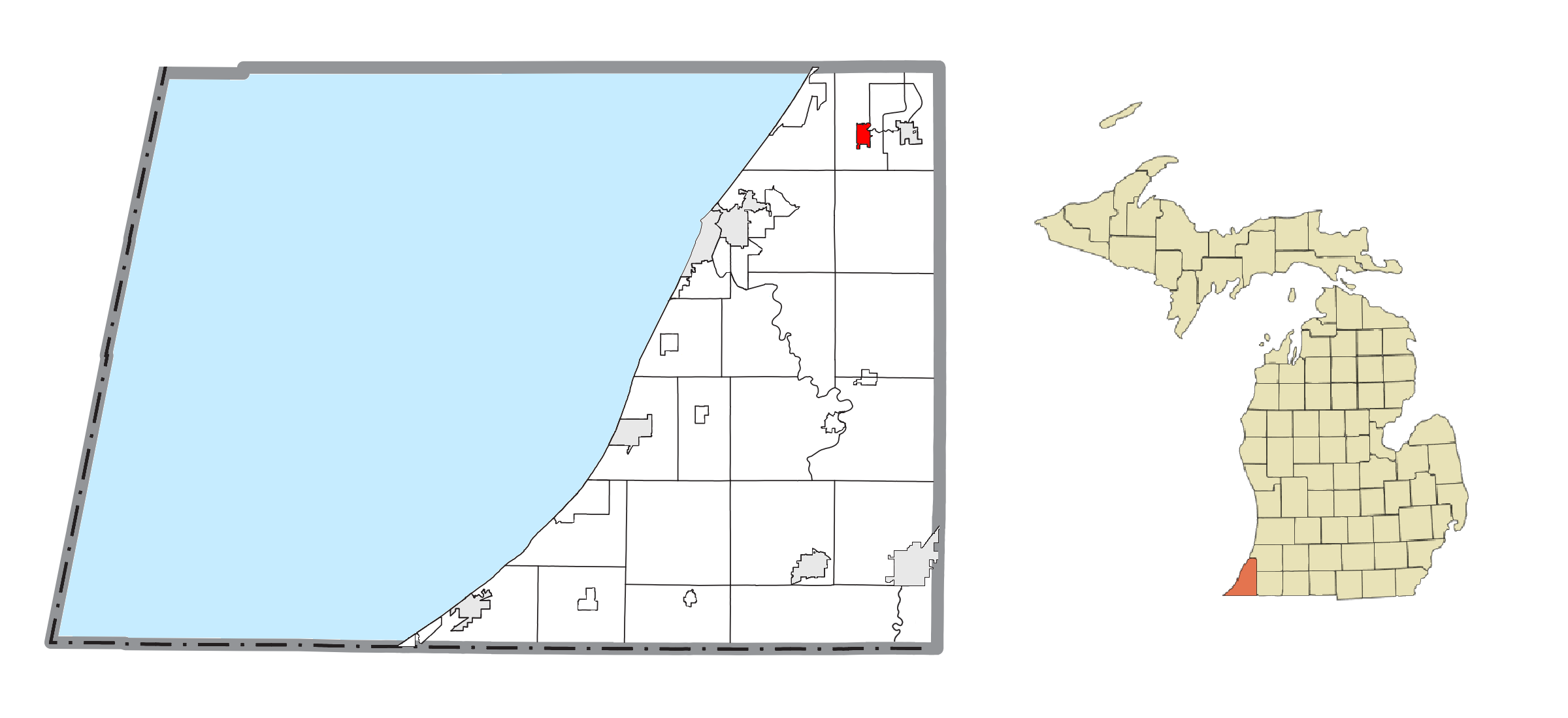 Coloma, MI